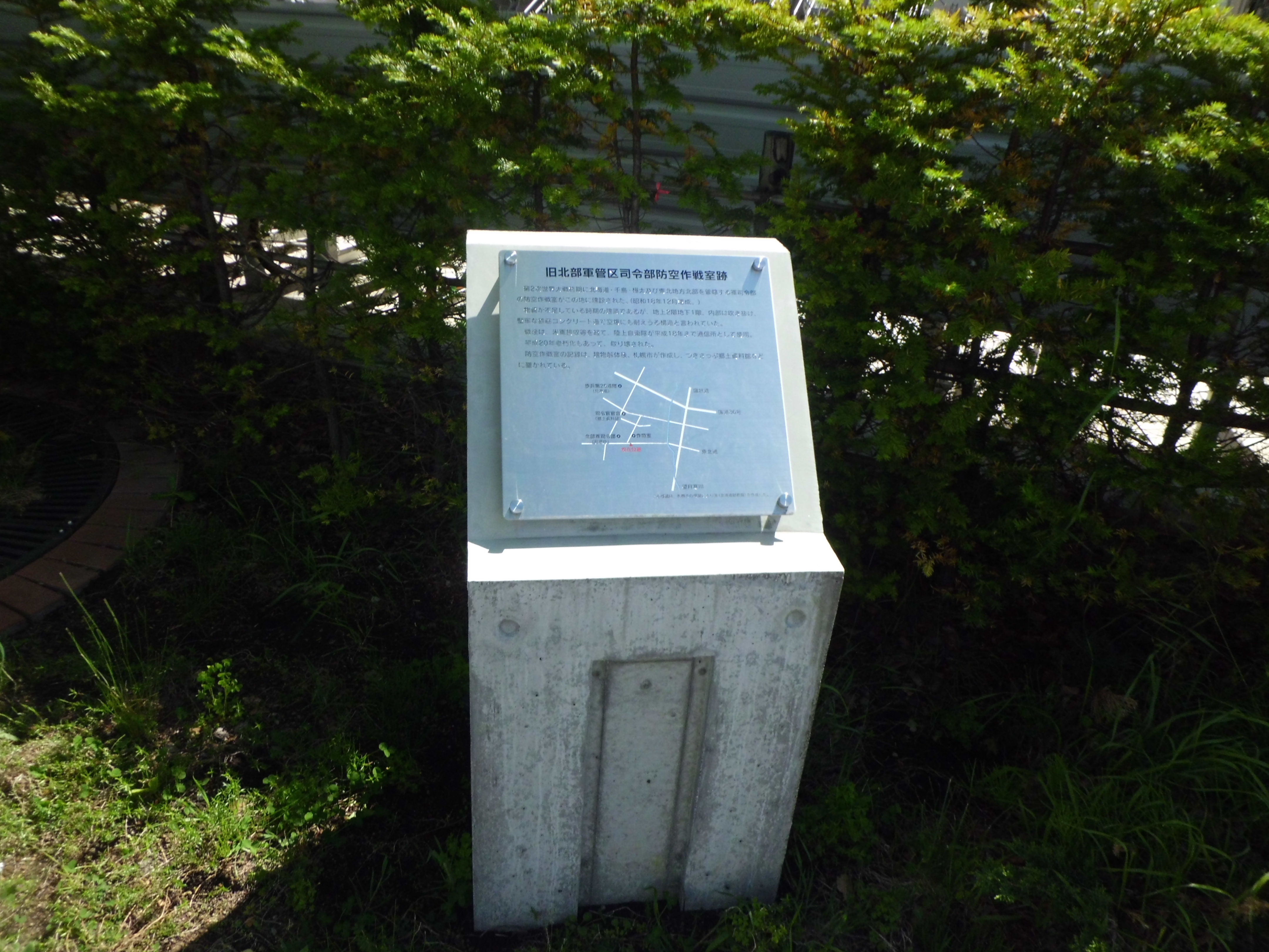 Monument to Strategy Room of Northern Army